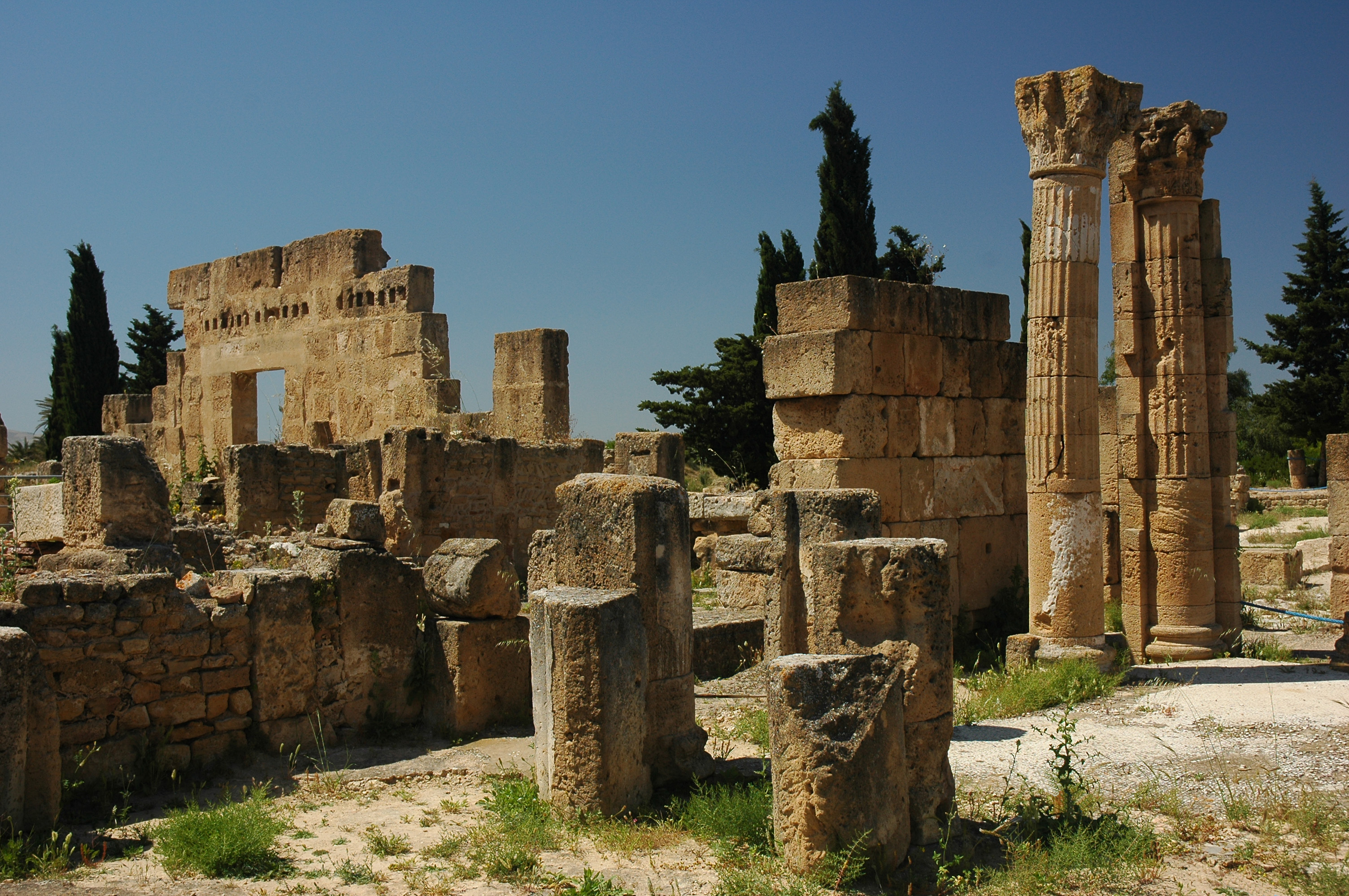 Archaeological site of Utica in Tunisia